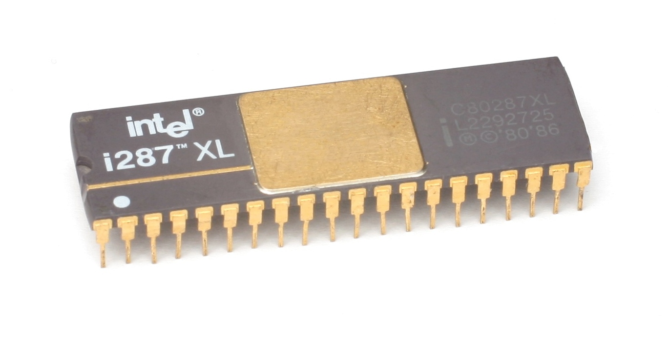 FPU Intel i80287XL Big Markings.